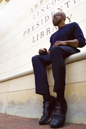 Choreographer Bill T. Jones at the Abraham Lincoln Presidential Library in Springfield, Illinois.